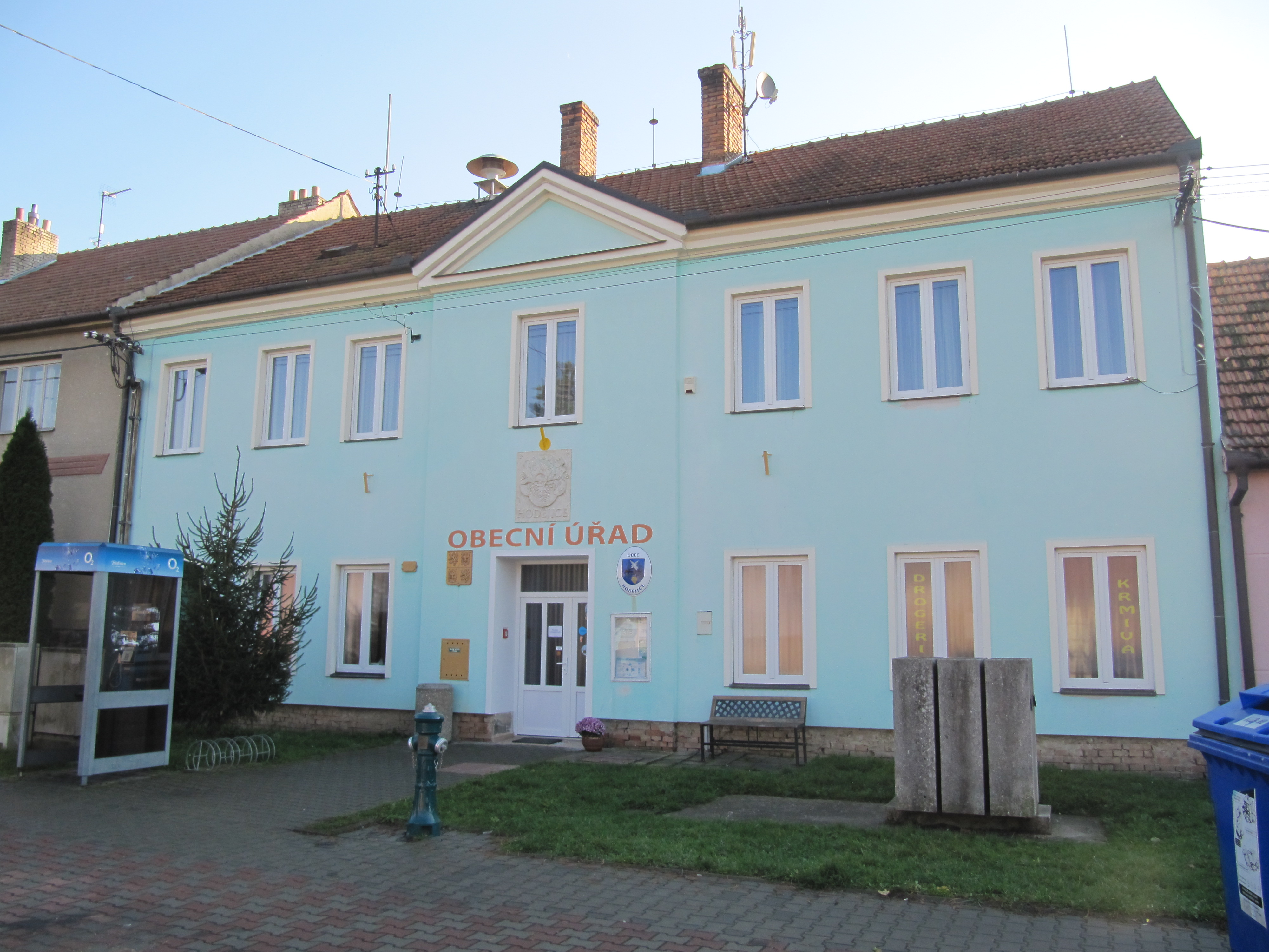 Hodějice in Vyškov District, Czech Republic. Municipal office.